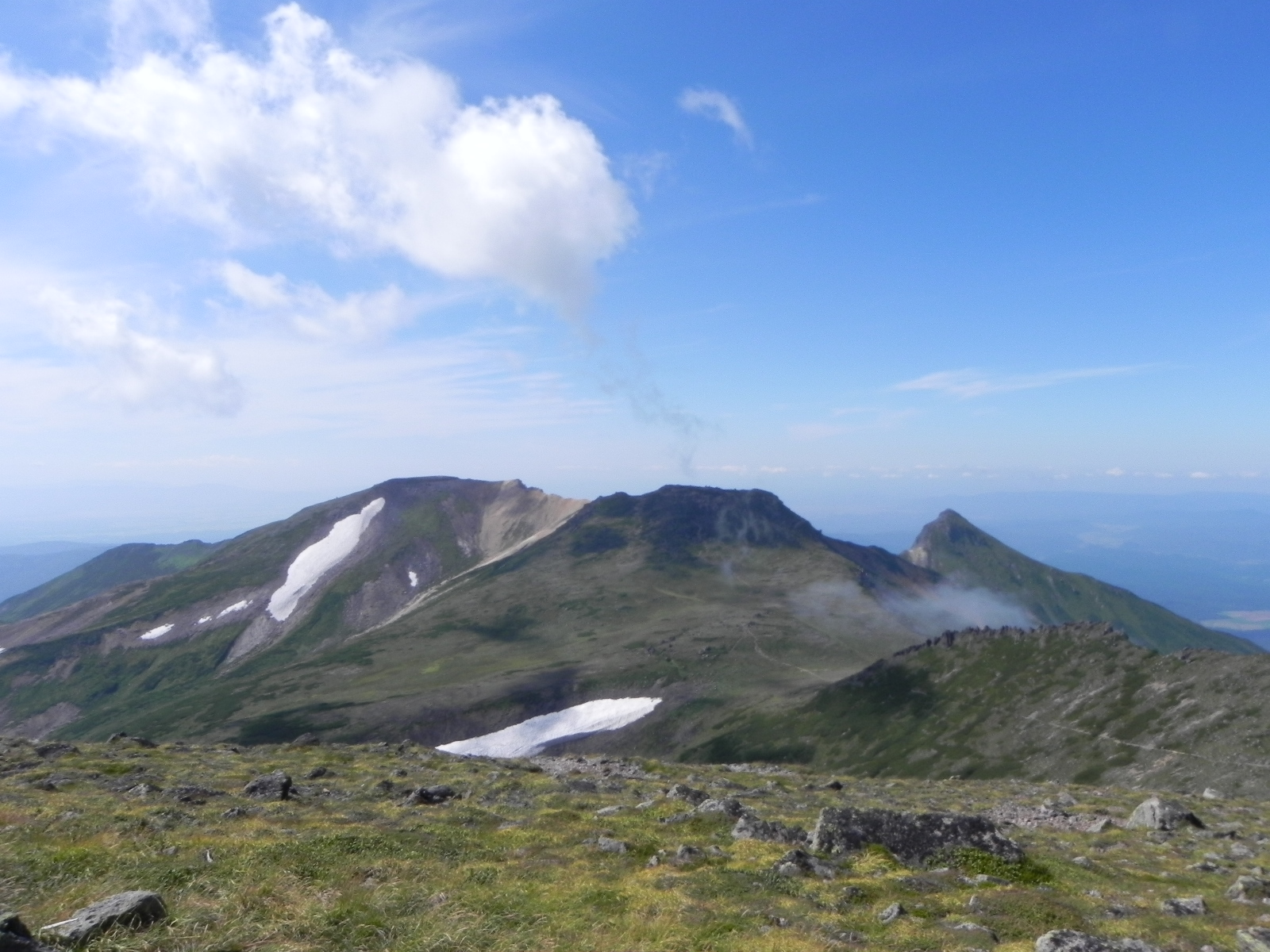 Looking WNW from Mount Hokuchin (Hokuchindake). Mount Antaroma (left), Mount Pippu (center), Mount Aibetsu (right)